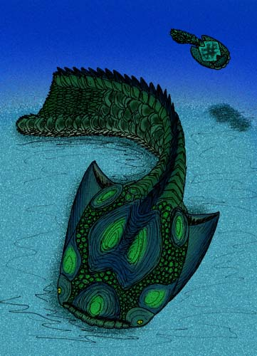 The archetypical psammosteid, Drepanaspis gemuendensis, from the Emsian Hunsrück lagerstätte, of Early Devonian Germany. Comparison of an adult and juvenile.